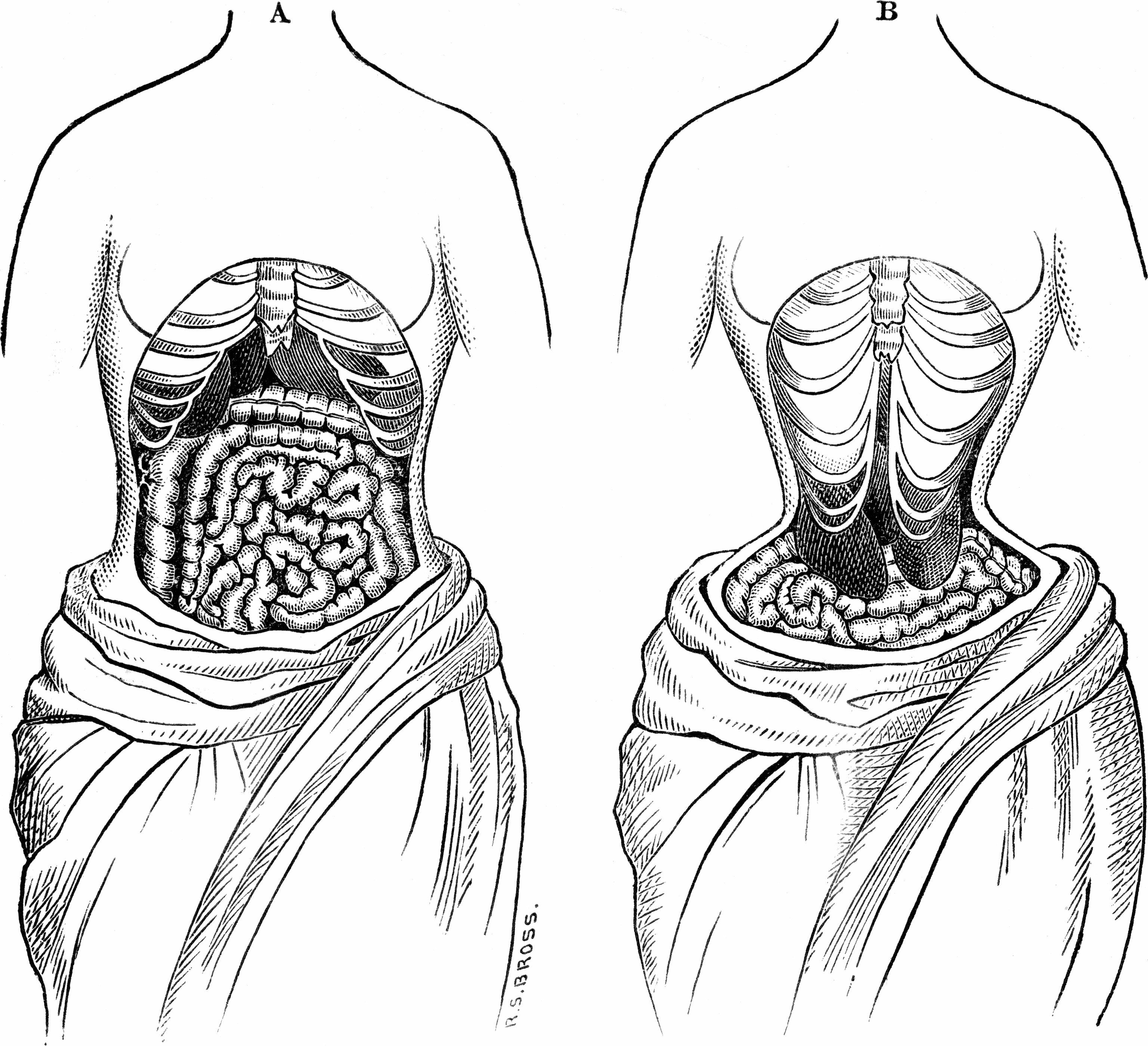 Fig. 11. A, the natural position of internal organs. B, when deformd by tight lacing. In this way the liver and the stomach have been forced downward, as seen in the cut.